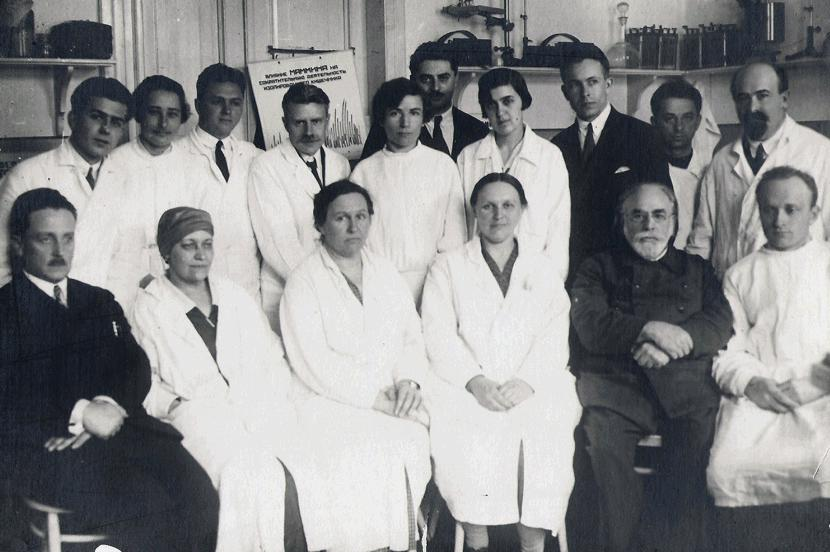 Ukrainian Organotherapy institute. Around 1925.